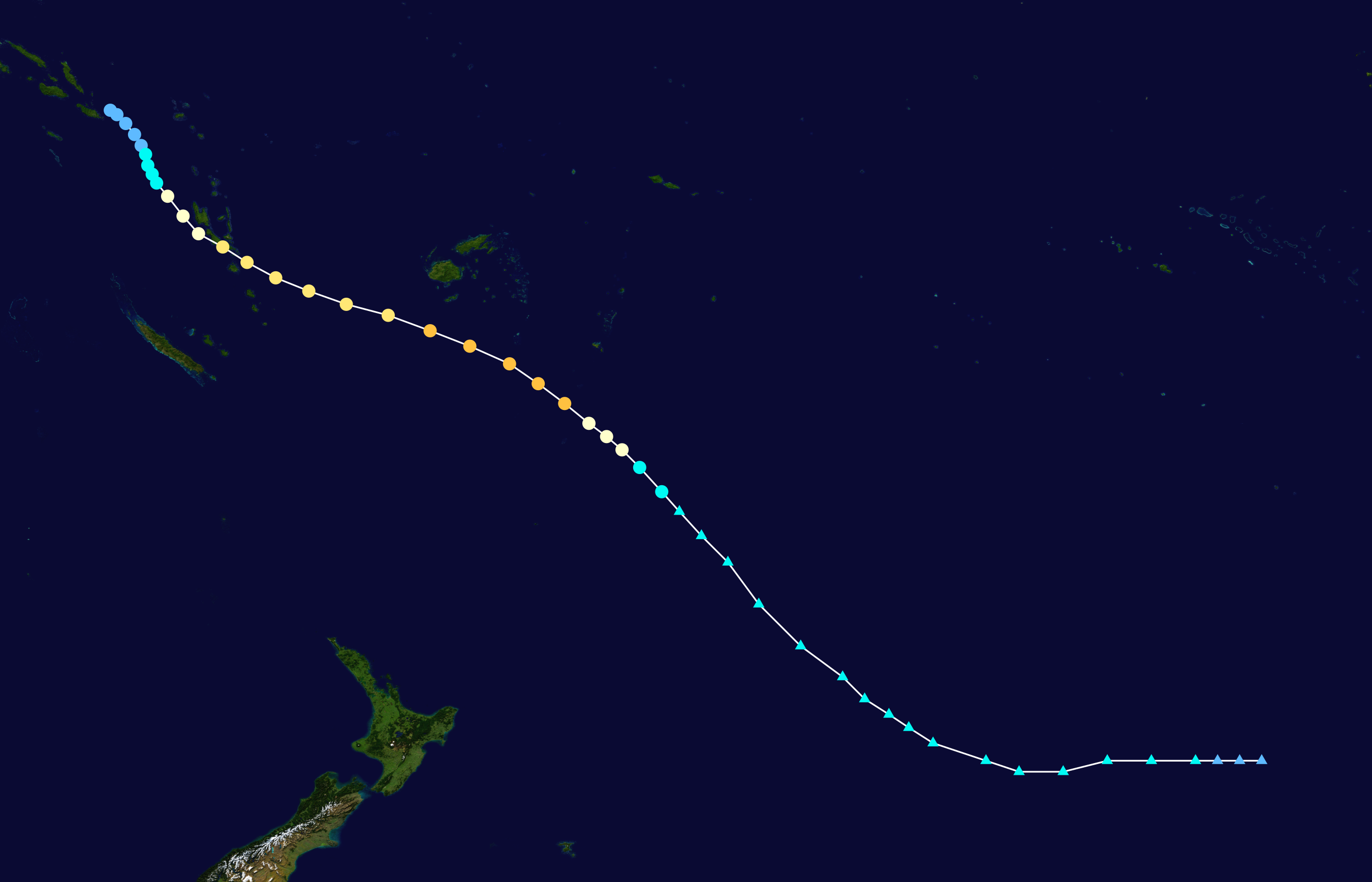 Cyclone Paula (2001) track. Uses the color scheme from the Saffir-Simpson Hurricane Scale.